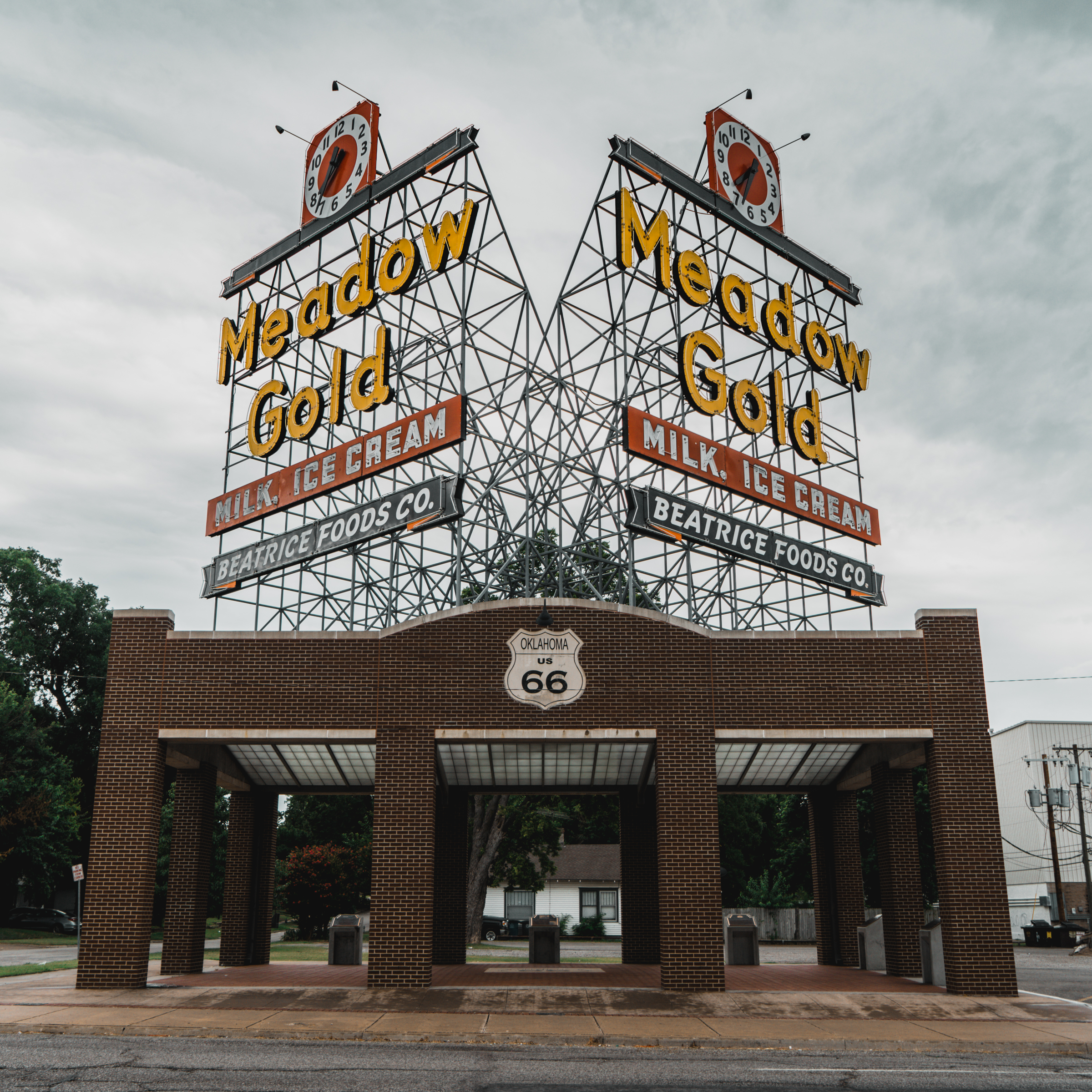 Restored Meadow Gold neon sign off Route 66 (11th Street) near downtown Tulsa.